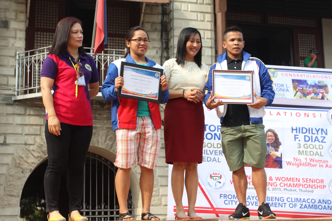 Mayor Beng Climaco honors and recognizes weightlifters Hidilyn Diaz and Nestor Colonia for their exemplary performance in the recently concluded Asian Weightlifting Championships in Phuket, Thailand that result to 5 gold medals and 1 silver medal. Also in photo is City Sports Officer Dr. Cecil Atilano